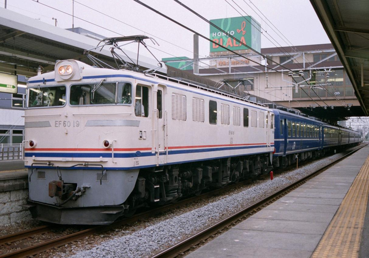 JR East Class EF60 electric locomotive EF60 19 on a special working at Honjo Station on the Takasaki Line in Saitama Prefecture, Japan